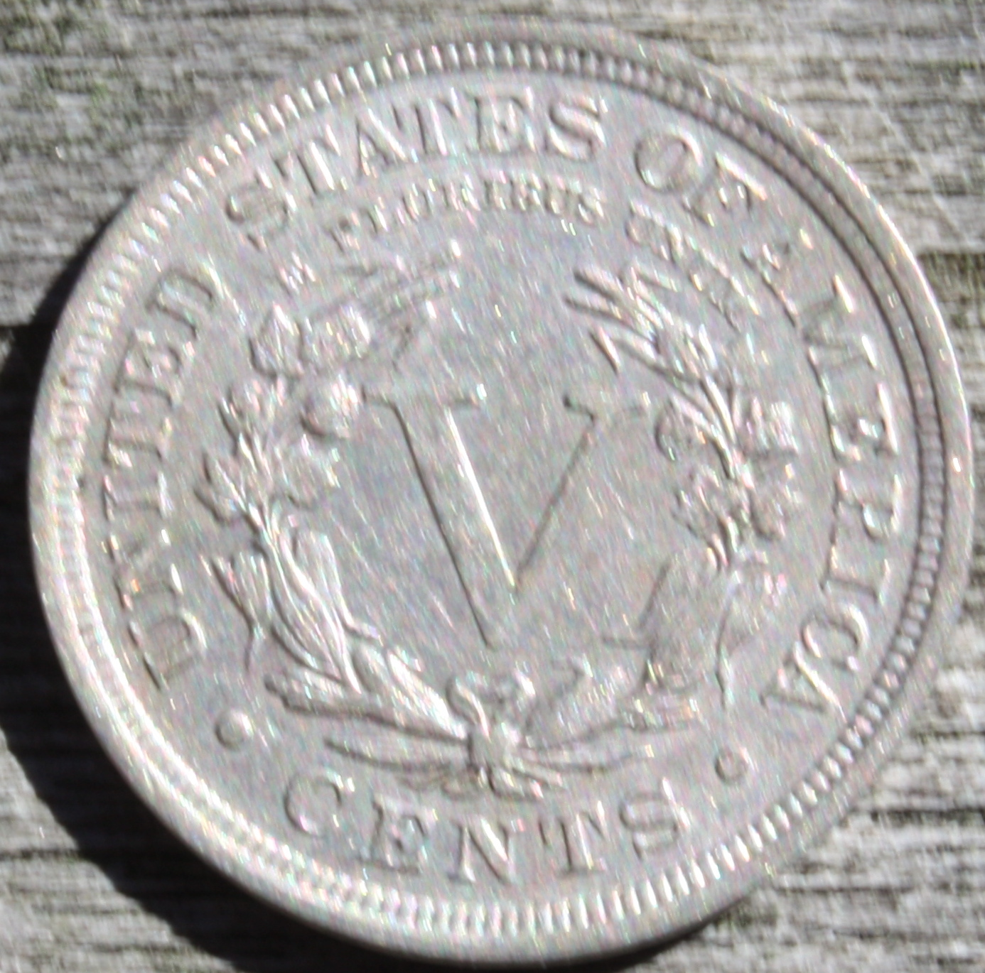 Reverse of a 1910 Liberty Head nickel